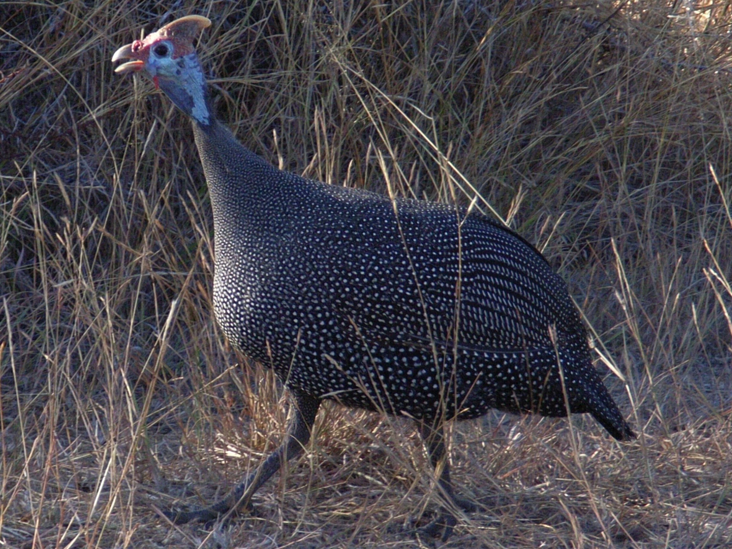 Photo of a helmeted guineafowl. Photo taken in Kruger Park, South Africa using a Ricoh Caplio R4 camera. (Image flipped with Coreldraw)